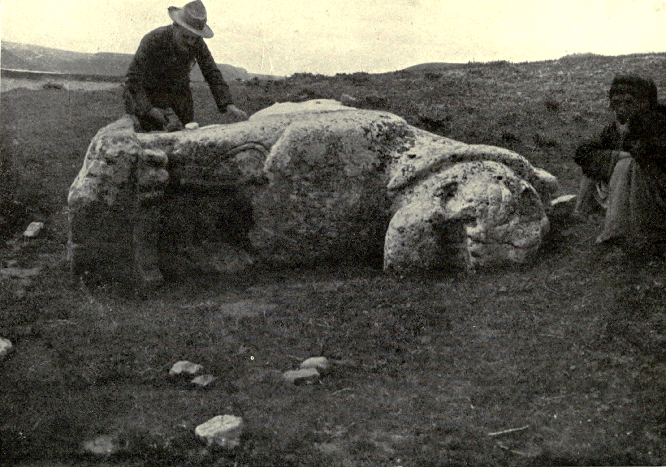 David George Hogarth. Accidents of an antiquary's life. 1910